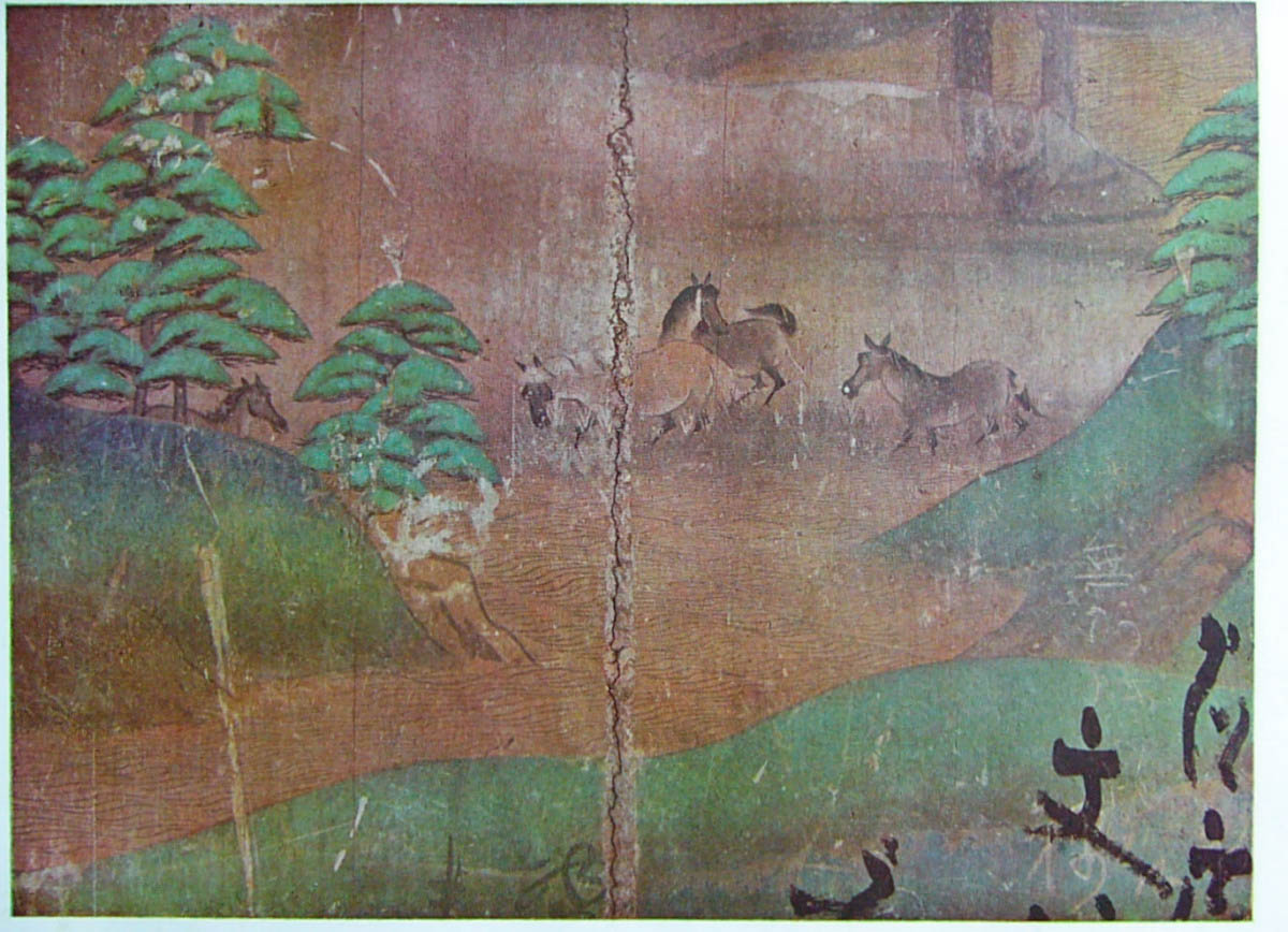 Wall Painting on East door of BYODOIN, Detail, ACE1053, UJI, KYOTO, Japan